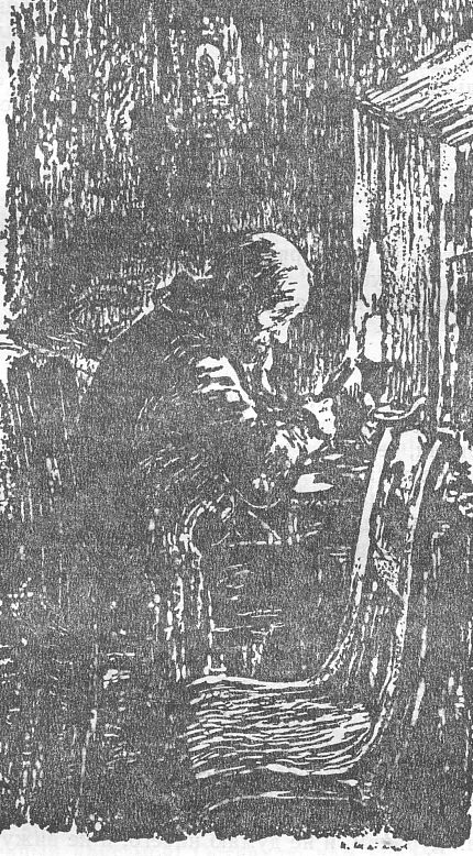 Sketch of protagonist Makar Devushkin from Fyodor Dostoyevsky's debut novel Poor Folk, by I. V. Shabanova. Appeared in Собрание сочинений в пятнадцати томах, volume 1. Created in 1940.